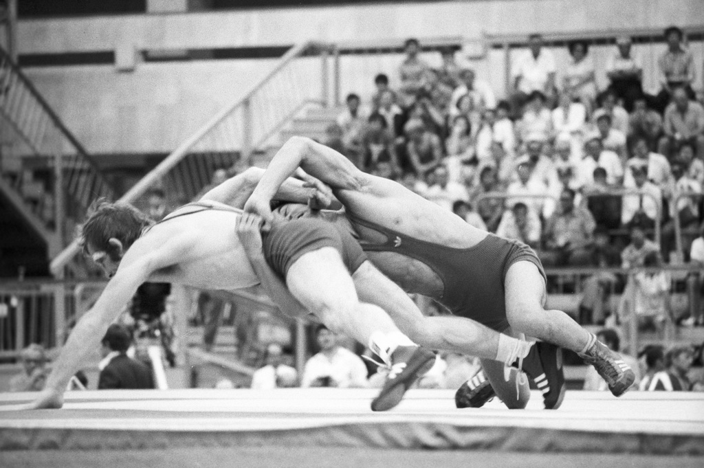 “Olympic champion in classic wrestling, 57kg division, Shamil Serikov and silver medalist of the 1980 Olympiad Jozef Lipien”. Olympic champion in classic wrestling, 57kg division, Shamil Serikov (USSR, right) and silver medalist of the 1980 Olympiad Jozef Lipien (Poland). CSKA sports complex. XXII Summer Olympic Games in Moscow.